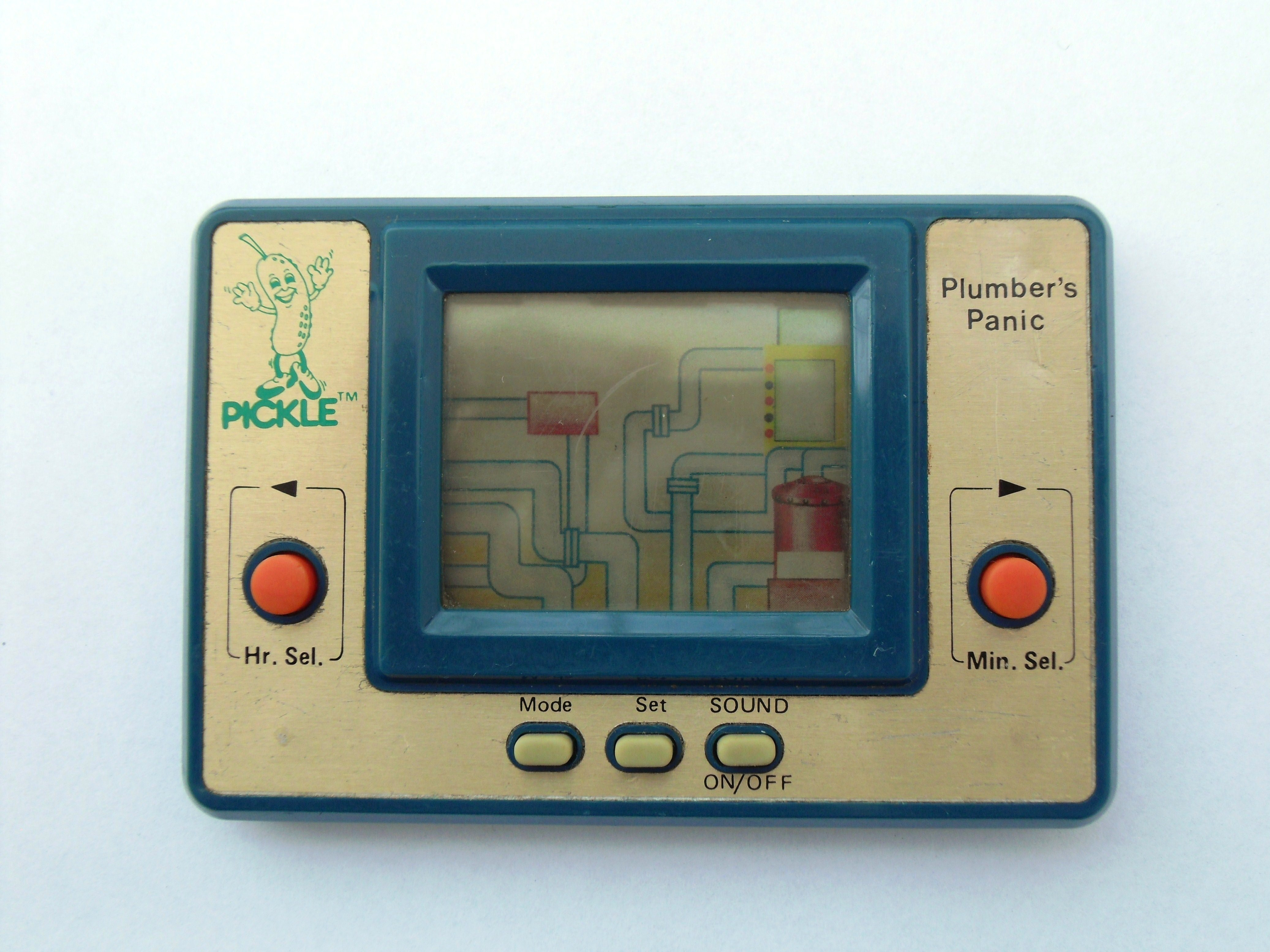 Pickle, "Plumber's Panic" handheld electronic game from ca. 1980. Made in Hong Kong.